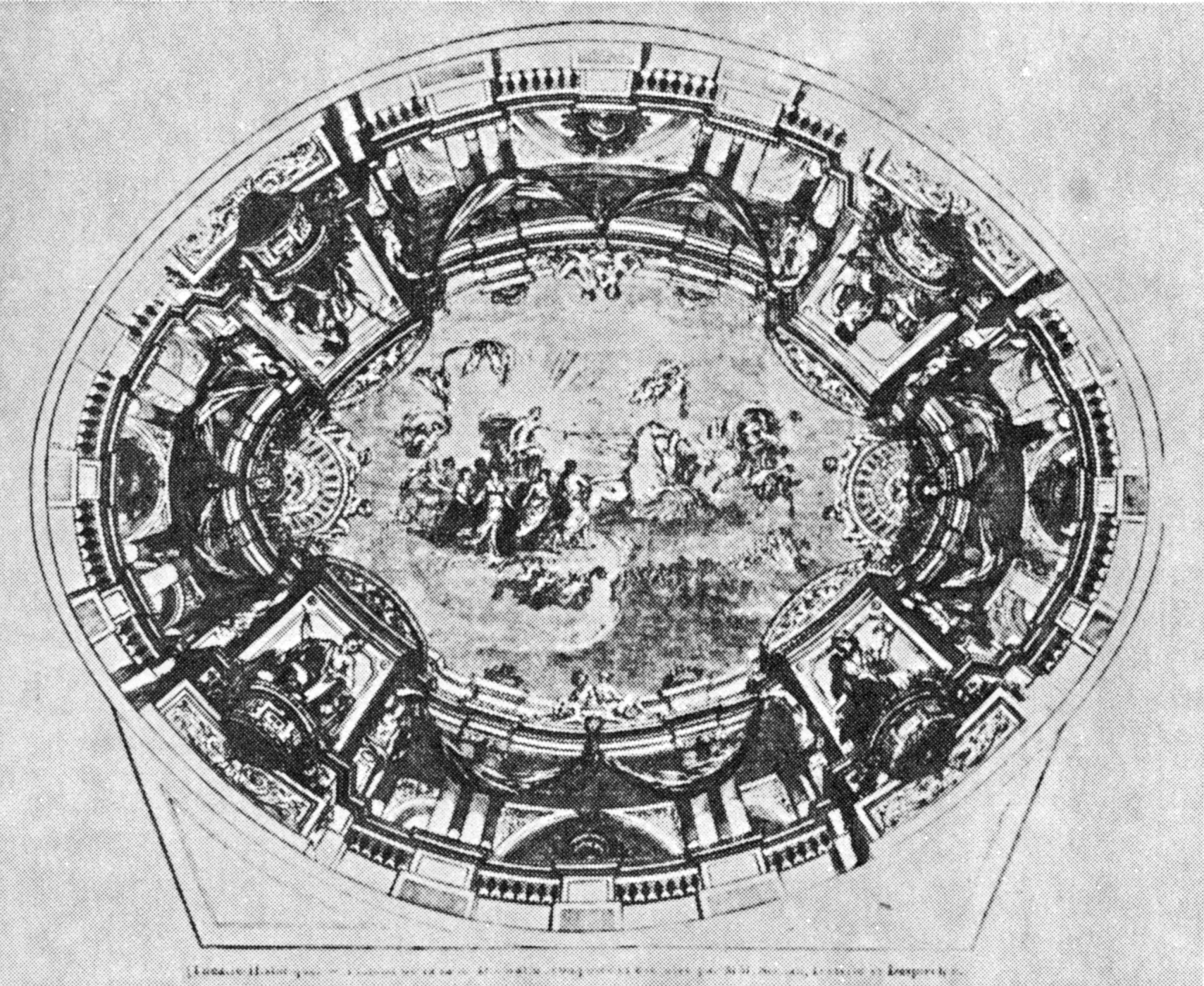 The oval ceiling of the Théâtre Historique, designed and painted by Charles Séchan, Jules-Pierre-Michel Dieterle, and Édouard Despléchin